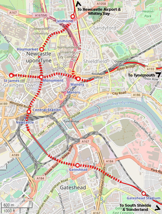 Map of underground central section of the Tyne and Wear Metro. Metro routes are in red, dotted lines are tunnel sections. This map may be incomplete, and may contain errors. Don't rely solely on it for navigation.